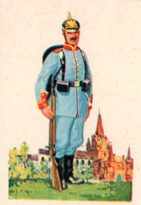 Royal Bavarian infantry regiment No. 10 "König" ("King") Ingolstadt. Sergeant (Unteroffizier) in parade dress.